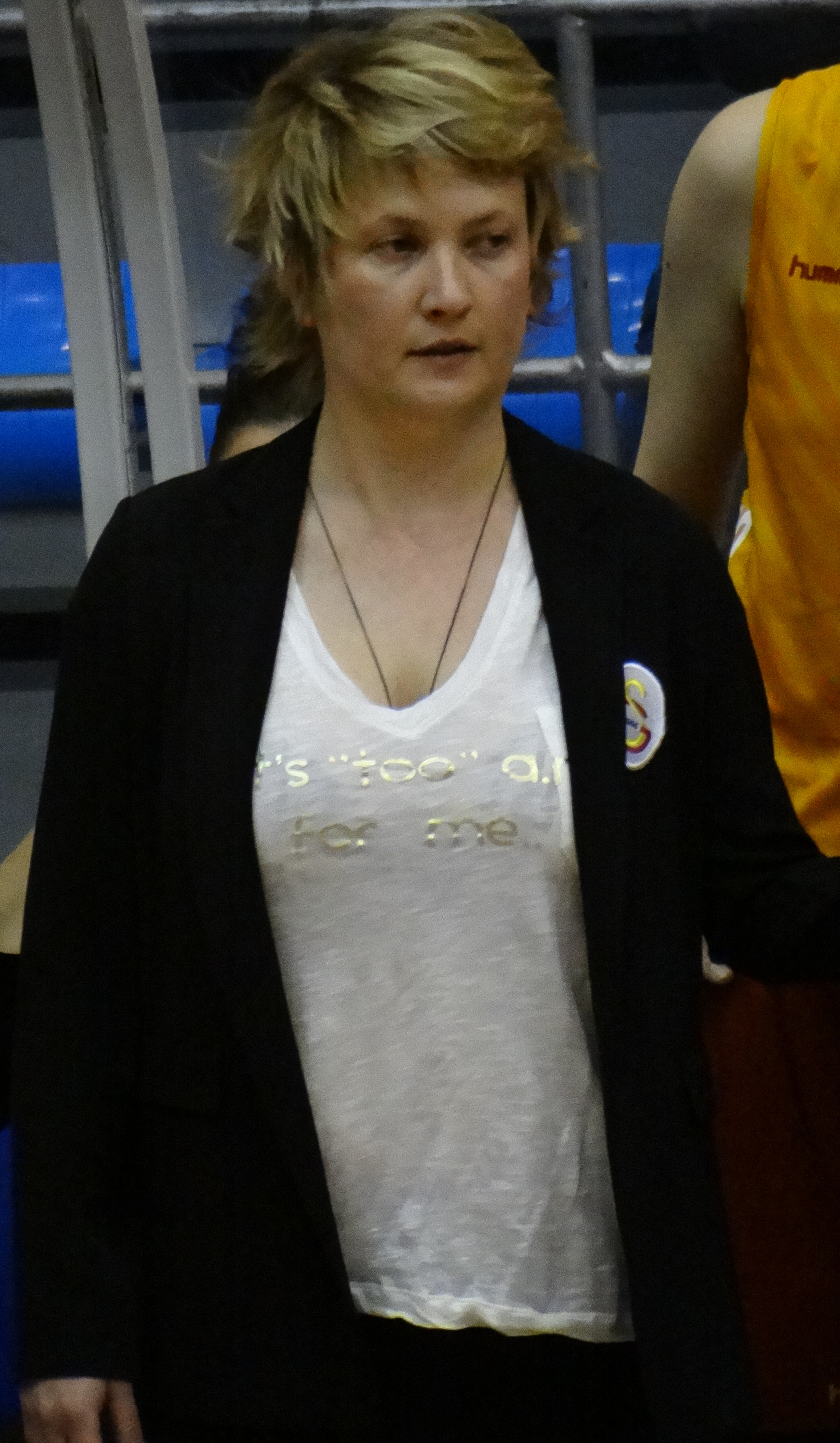 Marina Maljković Fenerbahçe Women's Basketball vs Galatasaray Women's Basketball TWBL 20180408